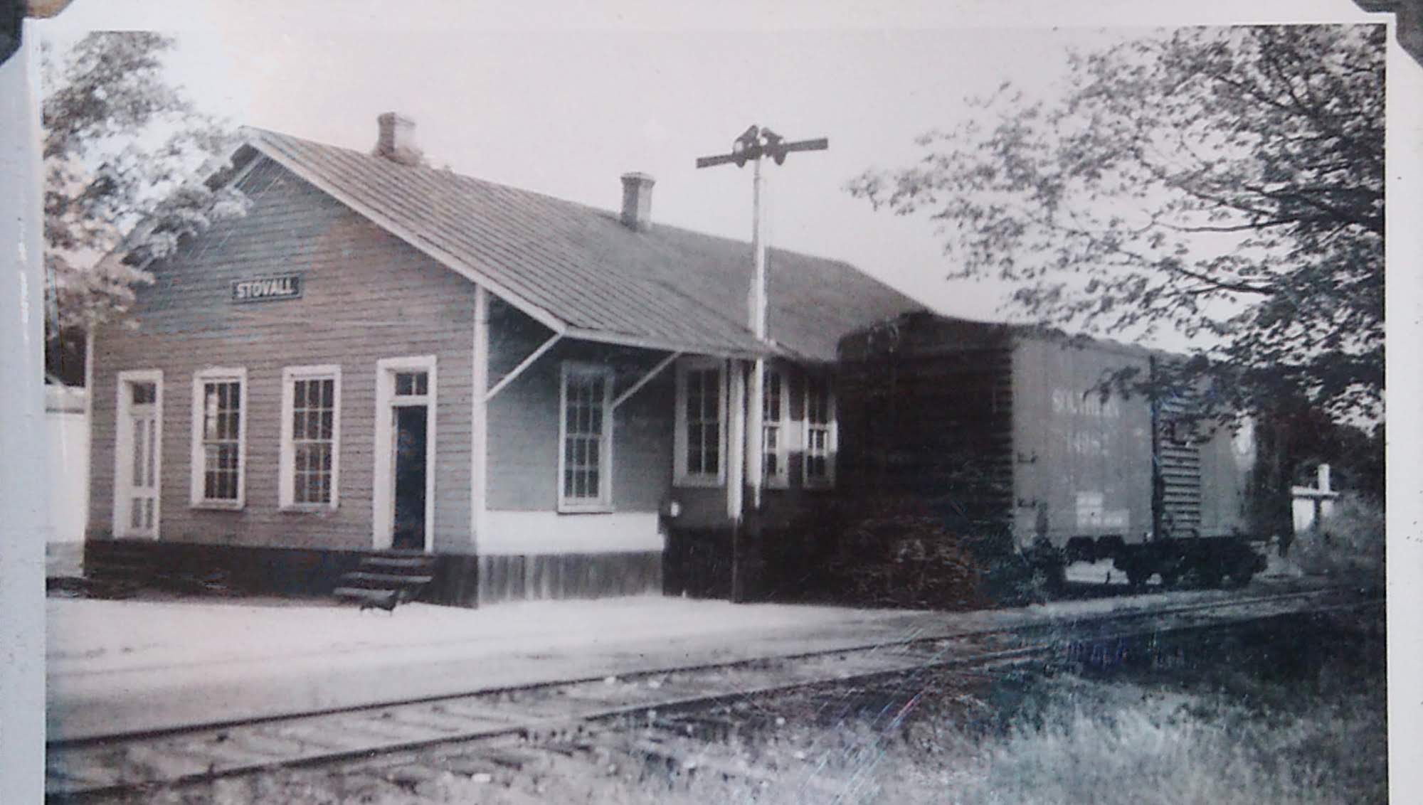 This station served the Stovall community from 1888 to 1964. It consisted of two passenger waiting rooms, an office and freight warehouse. Not only did the office serve the railroad, but it served as the headquarters for the Western Union Telegraph Company and the Southeastern Express Company.